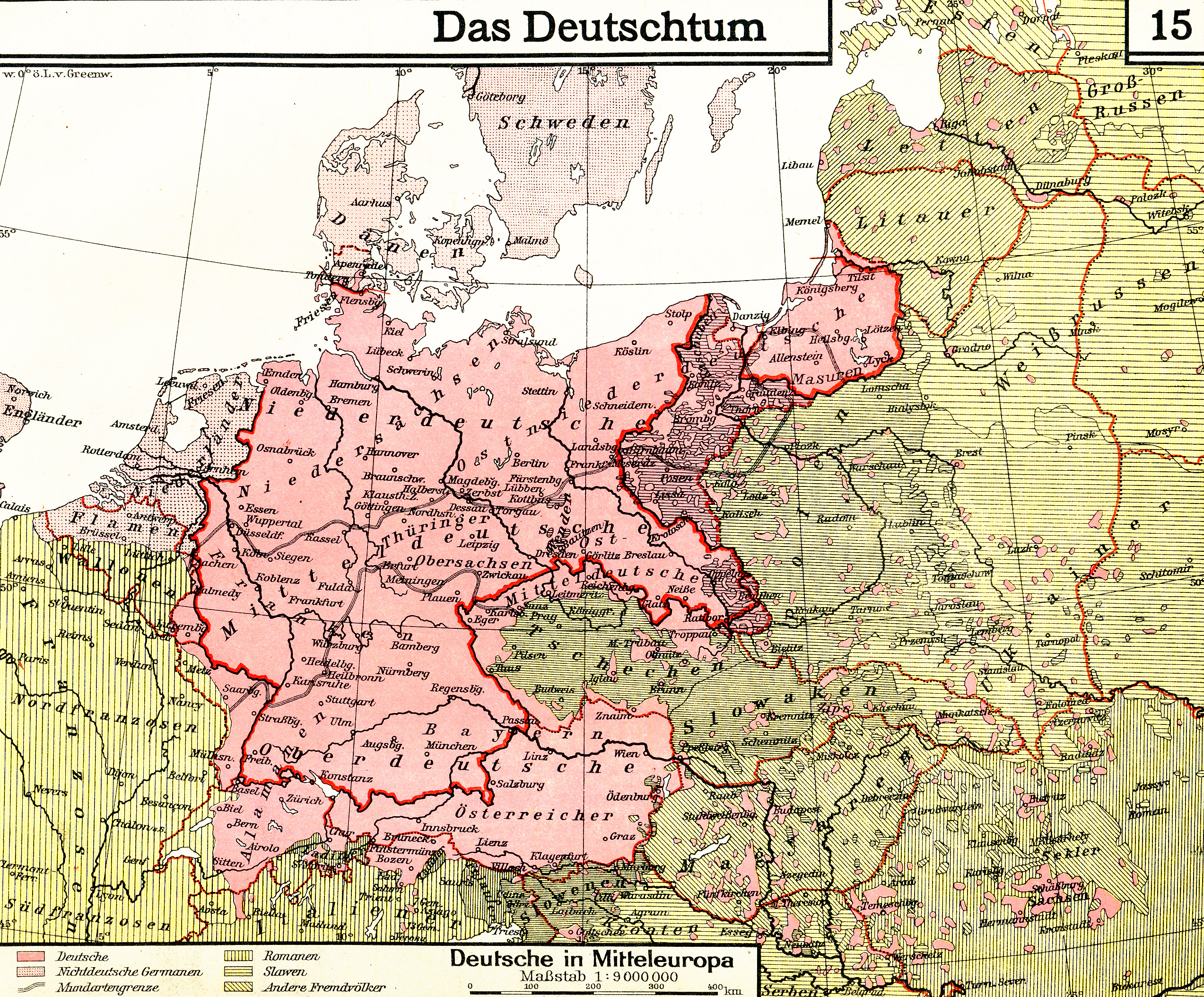 This is a part of an old atlas. It does not necessarily represent the current situation.